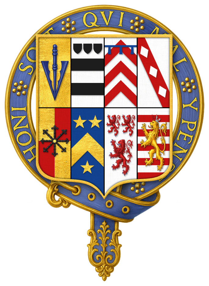 Coat of arms of Sir Henry Sidney, KG Quartering based on an illustration of Sir Henry's arms in Arms of the Knights of the Garter. Originally produced in England, 1564. Image currently available for view online at the British Library's website.